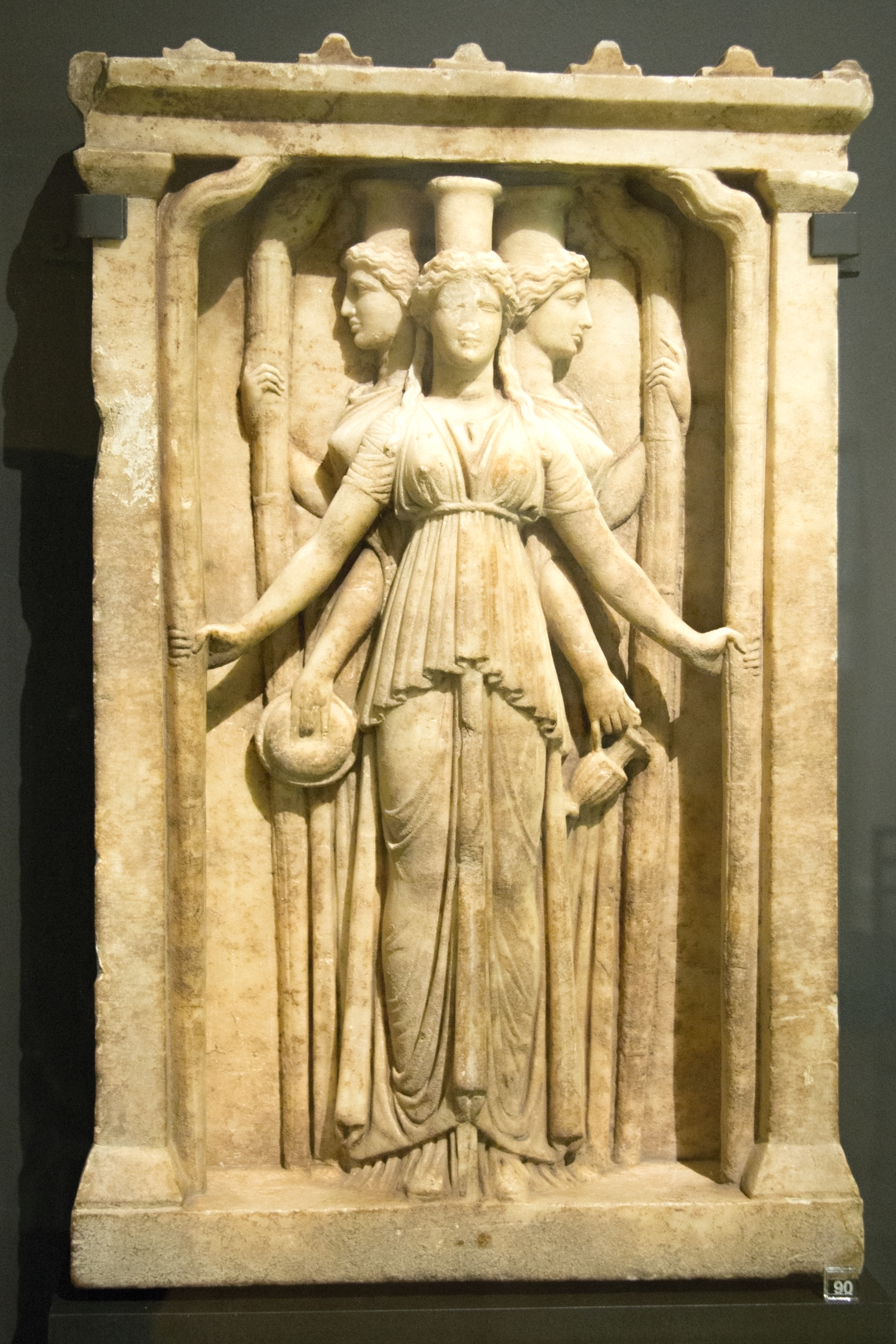 Relief of triplicate Hekate. Three female figures framed in aedicula, with high poloi on their heads, dressed in chiton and peplos, holding torches in their hands. Marble (small), Hadrian classicism. NG Prague, Kinský Palace, NM-H10 4742.